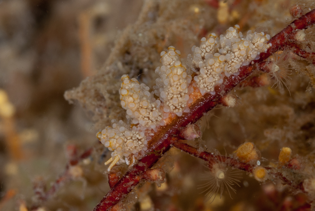 D. varaderoensis on hydroids